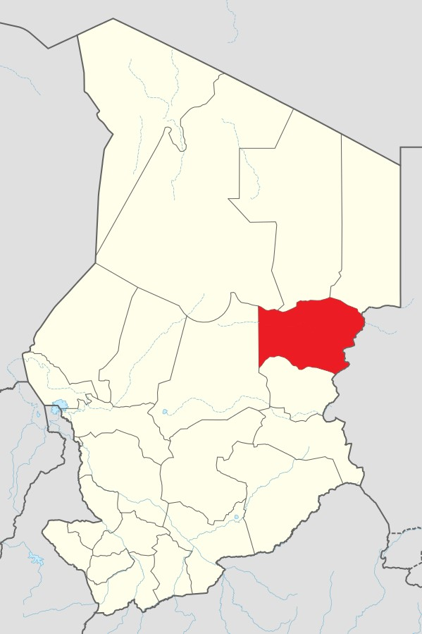 Image of Chad's Wadi Fira region